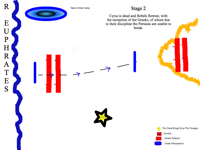 The Battle of Cunaxa, late stage after the death of Cyrus